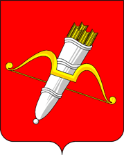 Coat of arms of Achinsk as of 18 june 2006